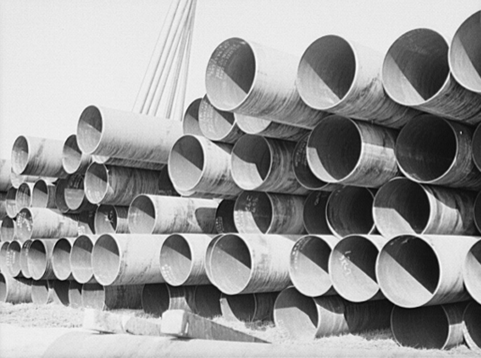 Pennsylvania section of the war emergency twenty-four inch pipeline to carry oil from Texas fields to eastern refineries, completed in July 1943. Pipe stacked along the railroad tracks. No known restrictions. For information, see U.S. Farm Security Administration/Office of War Information Black & White Photographs(